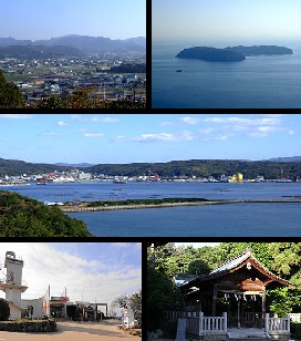 Minamiawaji montage